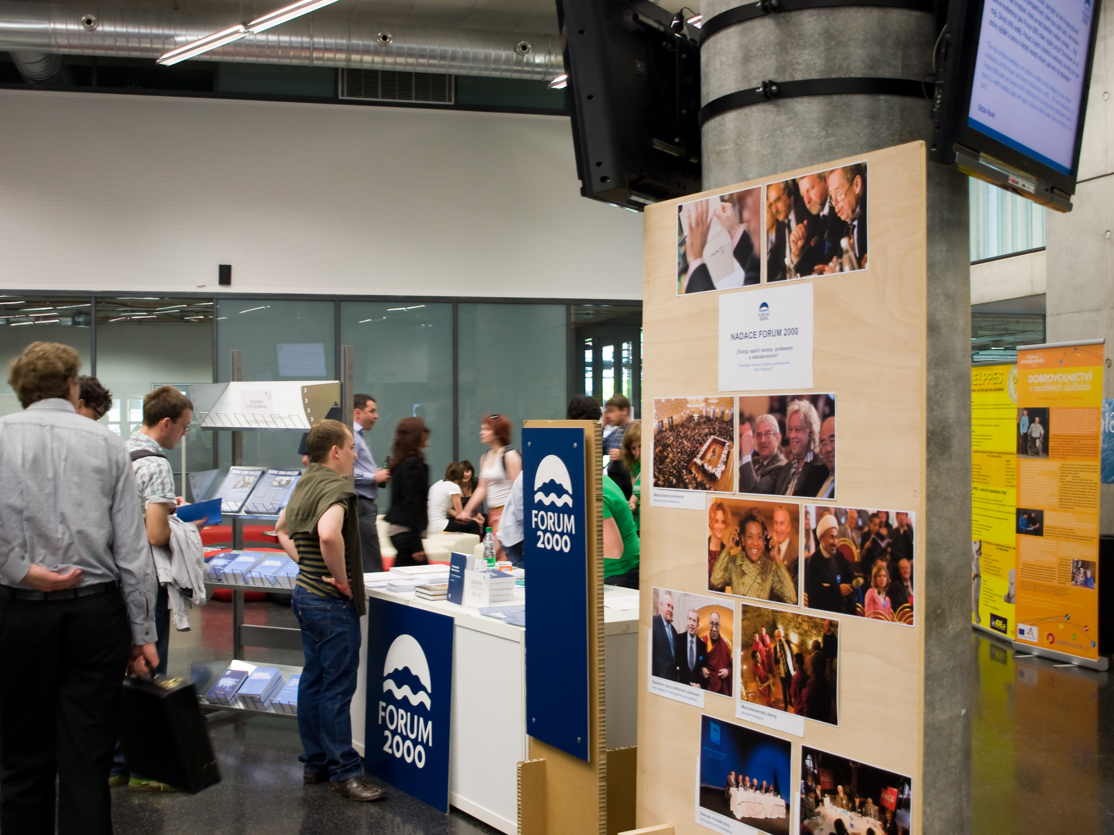 Presentation of Forum 2000, NGO market 2011